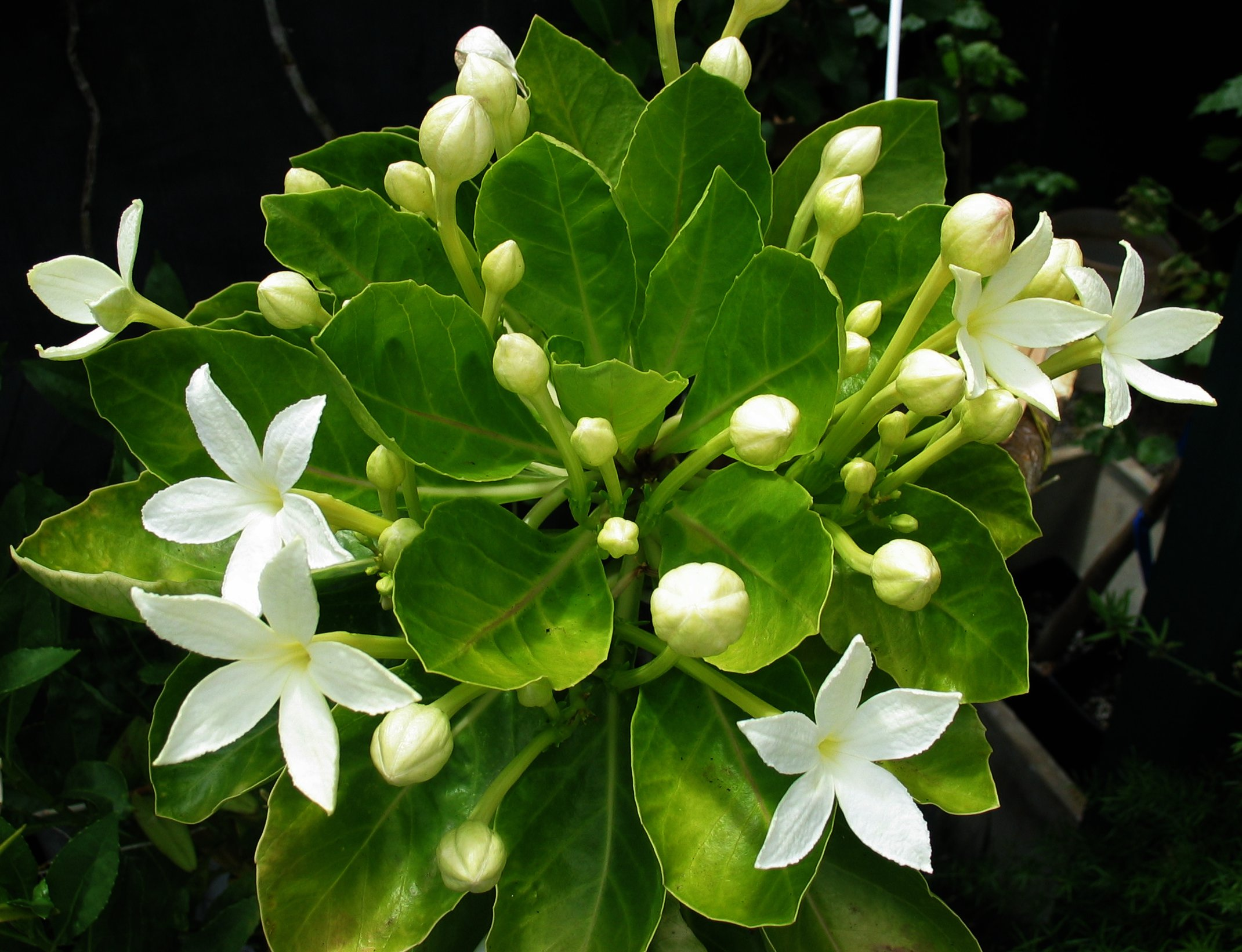 Pua 'ala, or Ālula Campanulaceae Endemic to the Hawaiian Islands (Moloka'i only) Endangered Oʻahu (Cultivated) Hawaiians of former times in Wailau Valley, Molokaʻi cultivated pua ʻala around their homes to enjoy the sweet fragrant flowers. One older source (Charles Gaudichaud,1819) states that Hawaiians "used all fragrant plants, all flowers and even colored fruits" for lei making. Red or yellow were indicative of divine and chiefly rank; purple flowers and fruit, or with fragrance, were associated with divinity. Because of their long-standing place in oral tradition, the fragrant yellow flowers ālula were likely used for lei making by early Hawaiians, even though there are no written sources. Botanist Otto Degener notes: "Brighamia, called by various natives puaala, alula, ohaha, was eaten raw as a supposed remedy for consumption and various other diseases." Today, residents of Kalaupapa are said to still cultivate pua ʻala in their gardens and use the leaves as an edible vegetable.